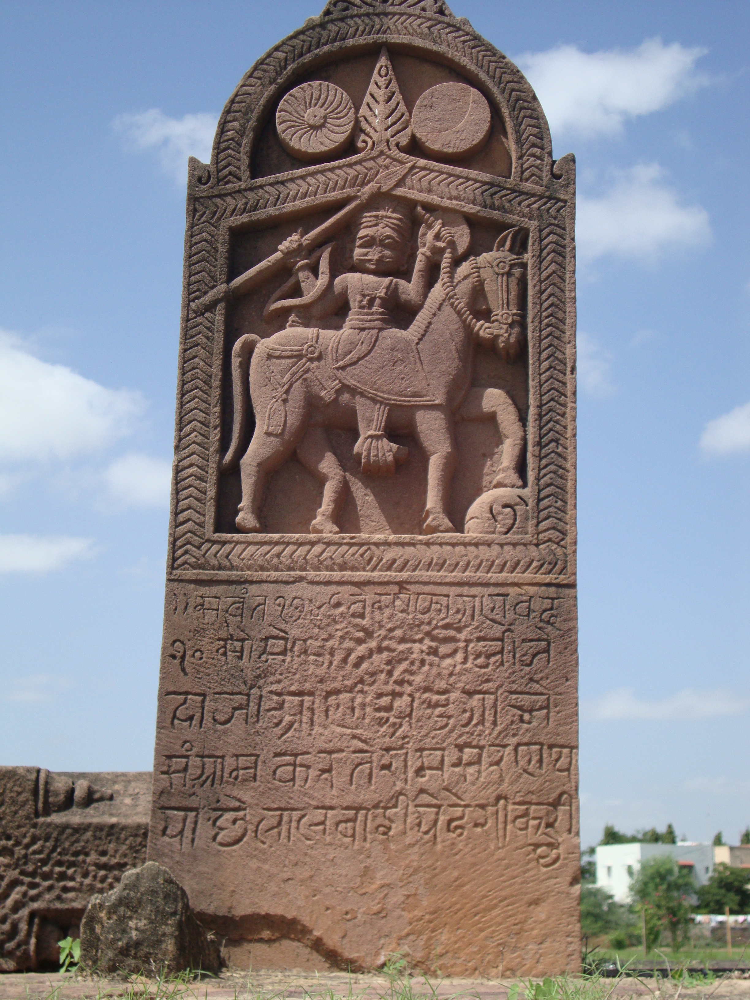 Samadhi near Rao Lakhaji Chhatri - Closeup look